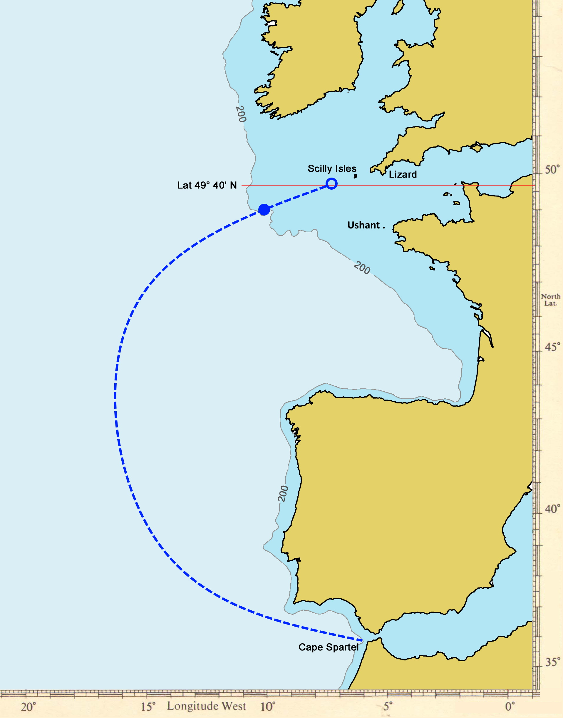 The dashed blue line shows the approximate route of the fleet under the command of Admiral Shovell from Cape Spartel to the Isles of Scilly October 1707. The open circle shows the dead reckoning position of H.M.S. Orford when it hove to, with the rest of the fleet, before they set off on the fatal last stage of the voyage. The position is from the log kept by Lieutenant Anthony Lochard, published by William May ( (1960). "The Last Voyage of Sir Clowdisley Shovel". The Journal of Navigation 13 (3): 324-332.). HMS Orford avoided the disaster in which four ships were lost, and Shovell and some 2,000 sailors died, when they struck the Gilstone rocks in the Scillies. The red horizontal line shows latitude 49° 40’ N, recommended by Edmund Halley ( (1700). "An Advertisement Necessary for All Navigatiors Bound up the Channel of England". Philosophical Transactions 22: 725-726.) as a safe northern limit for entering the channel and clearing the Isles of Scilly and the Lizard. Data superimposed on file: Outline map Atlantic Coast Morocco to Ireland.jpg. Depth in meteres.